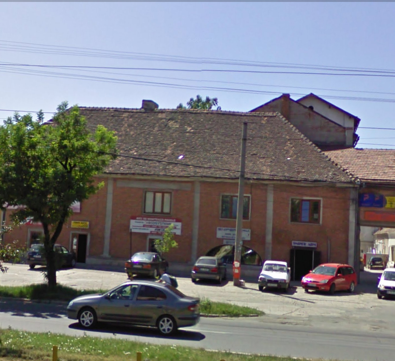 arad